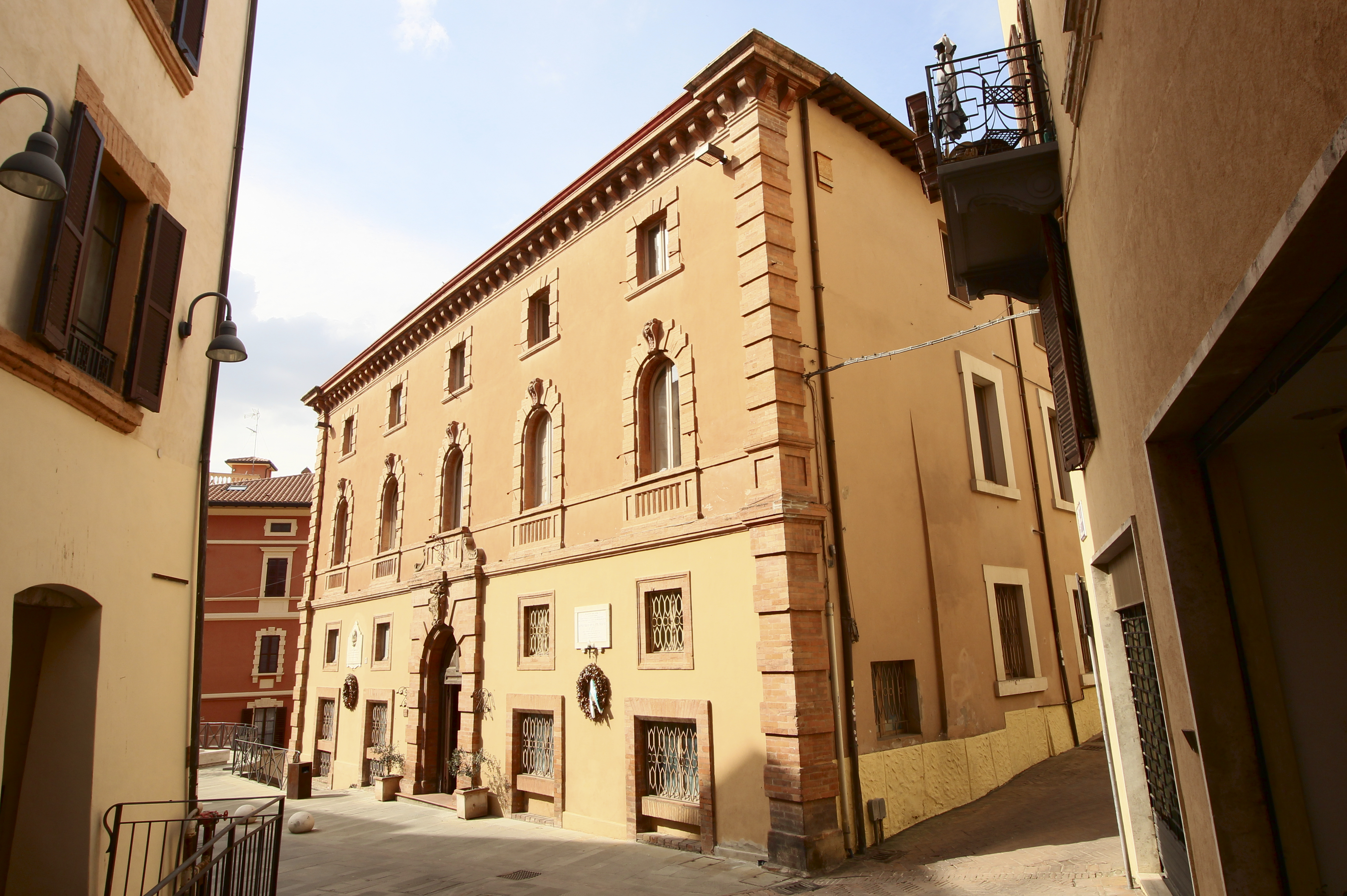 Palazzo Comunale, town hall of Marsciano, Province of Perugia, Umbria, Italy